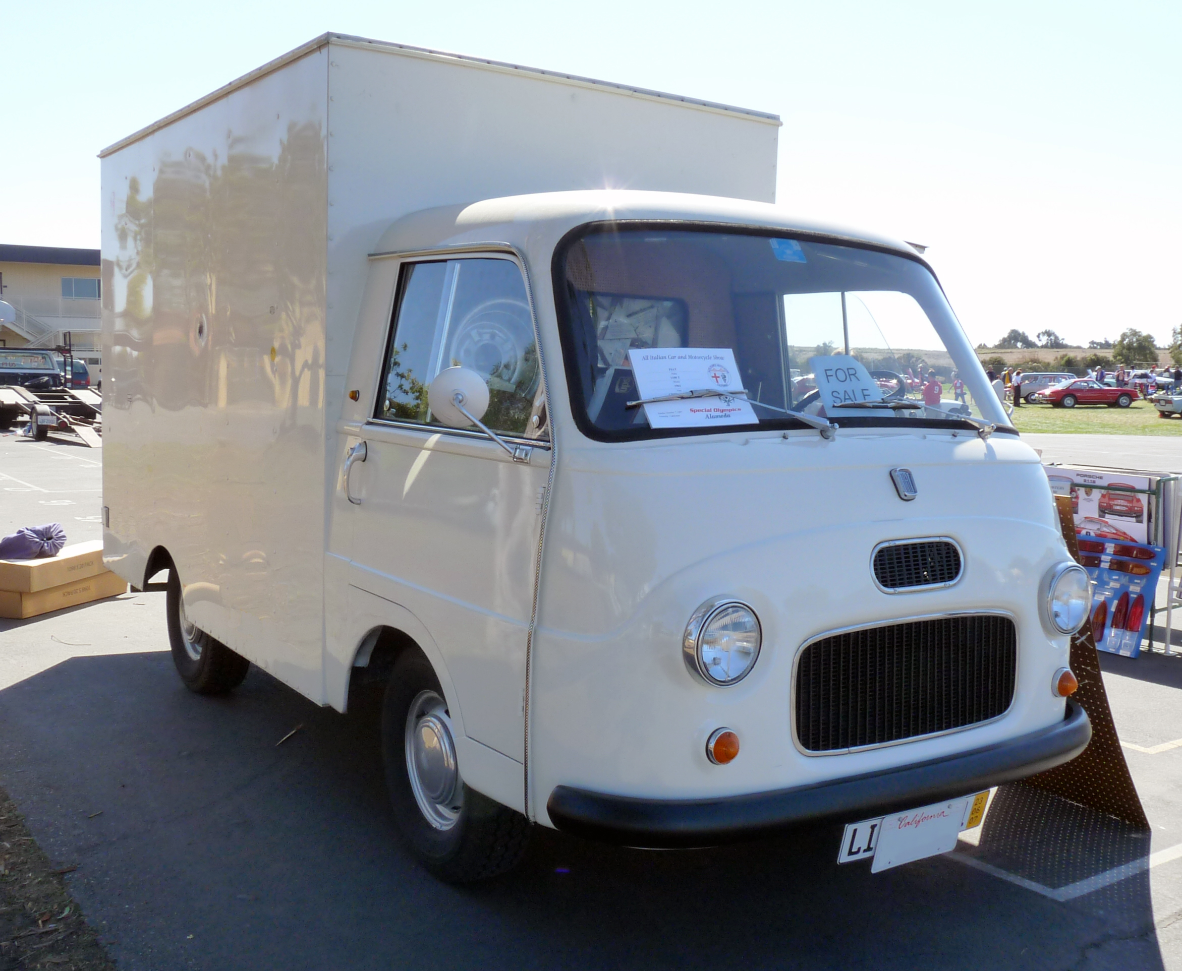 1961 (?) Fiat 1100T trucklet